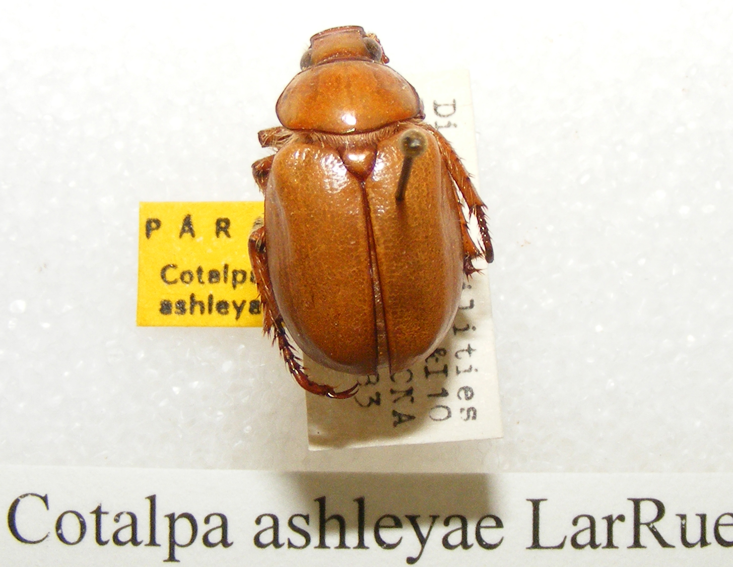 Cotalpa ashleyae paratype from the Texas A&M University Insect Collection